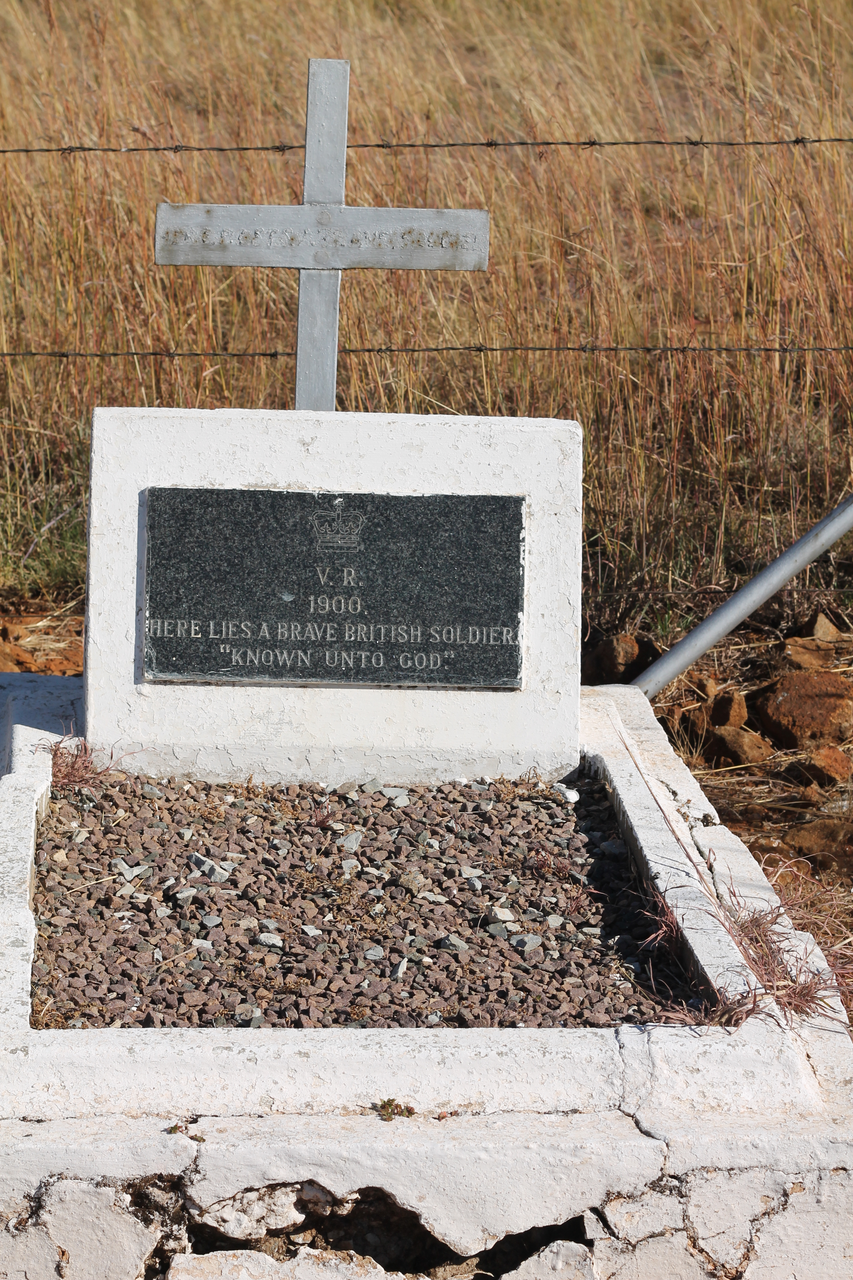 V.R. 1900 Here lies a brave British Soldier "Known unto God" This media shows a South African Protected Site with SAHRA file reference 9/2/402/0005.